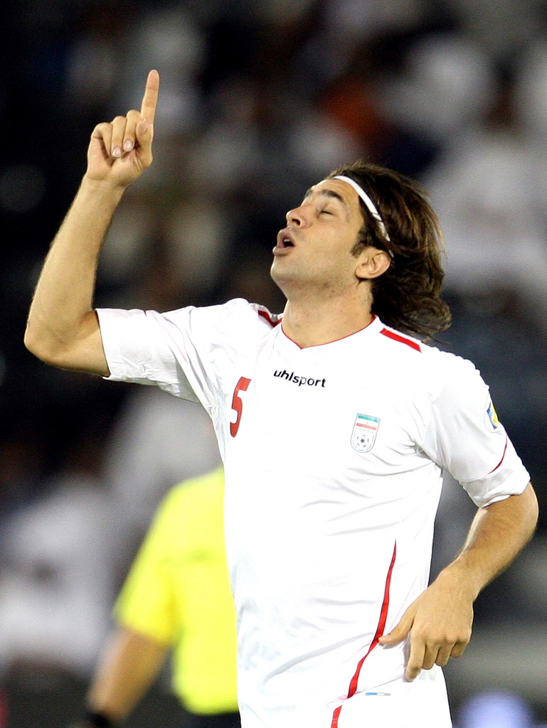 Iran's Hadi Aghily celebrates his goal against Qatar in the 2014 FIFA World Cup qualification match at the Al Sadd Stadium.